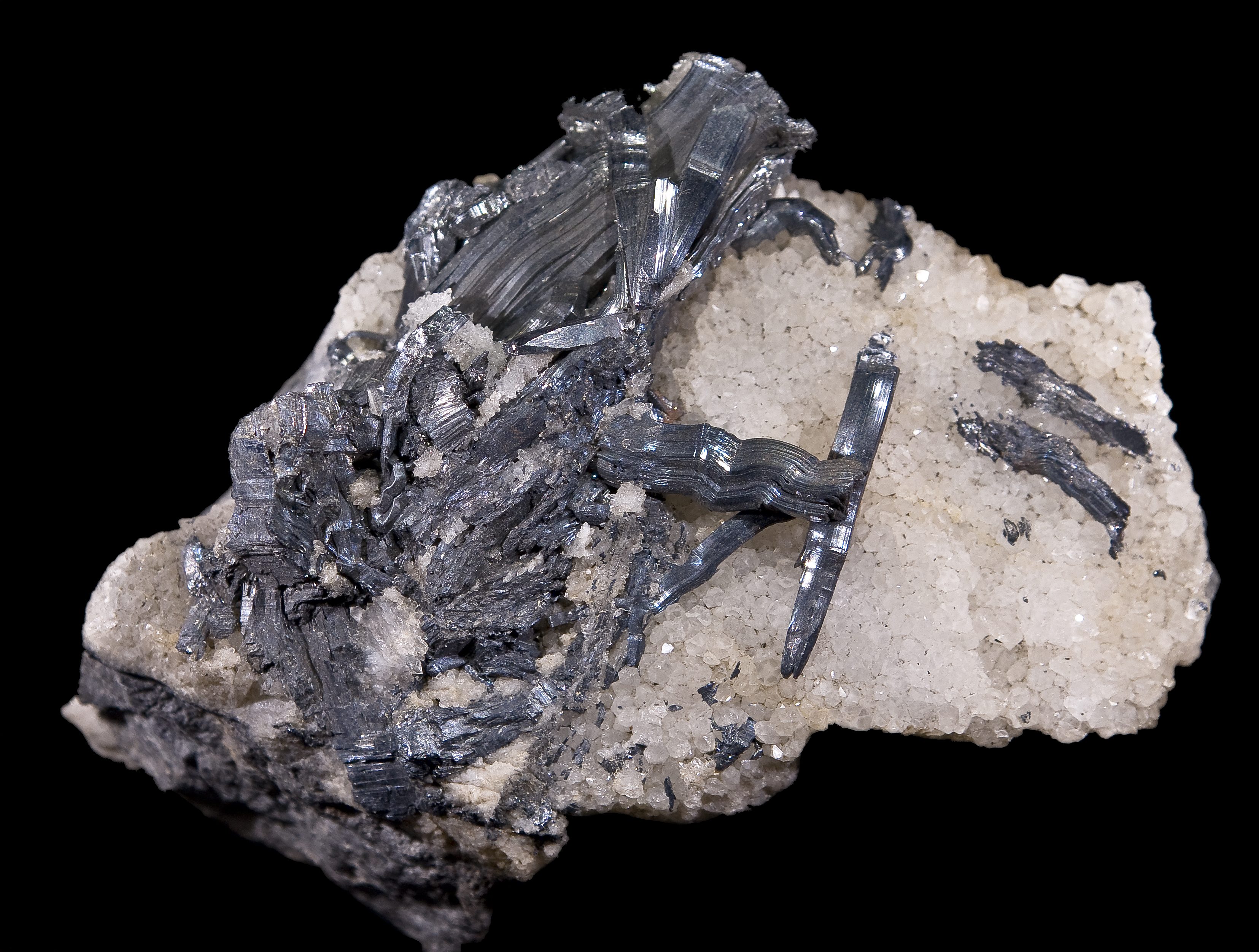 Stibnite with quartz - Graf Jost-Christian Mine, Wolfsberg, Harzgerode, Harz Mts, Saxony-Anhalt, Germany - (6.9x4.8cm)